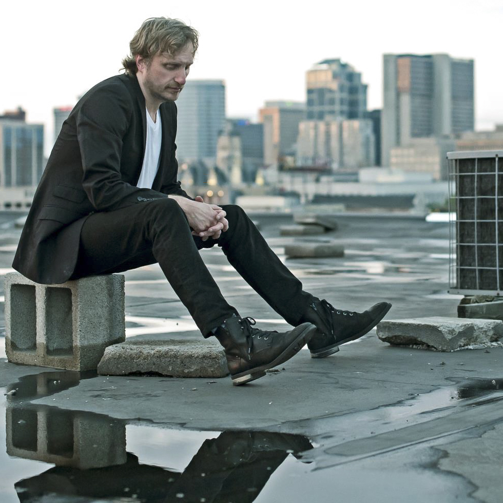 Picture of Dave Berg in Nashville, Tennessee, taken by Robbie Quinn. Can be found at This Page.